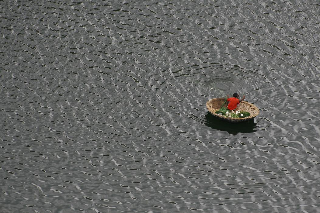 (Coracles) Round boats(Putti) in Krishna river at Srisailam, Andhra Pradesh